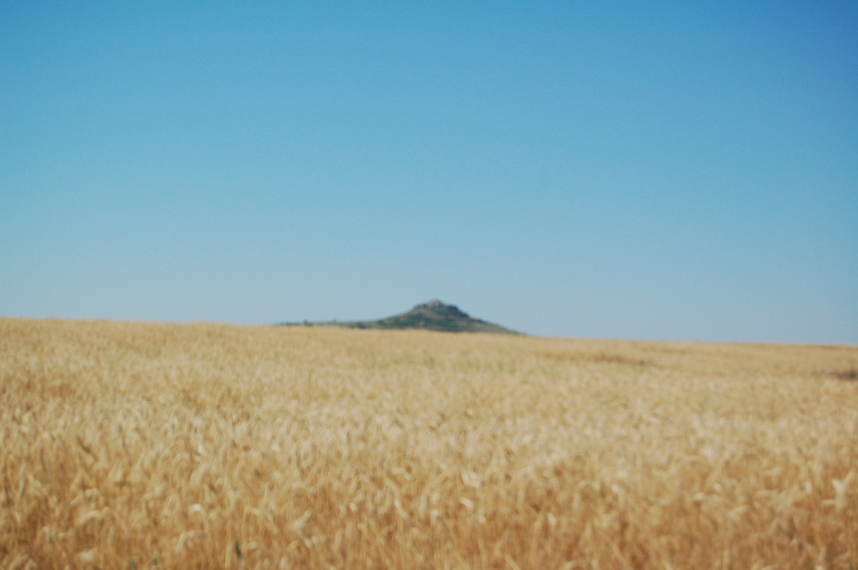 Granary in Kilkis prefecture and the Megalithic castle of Gala in backround